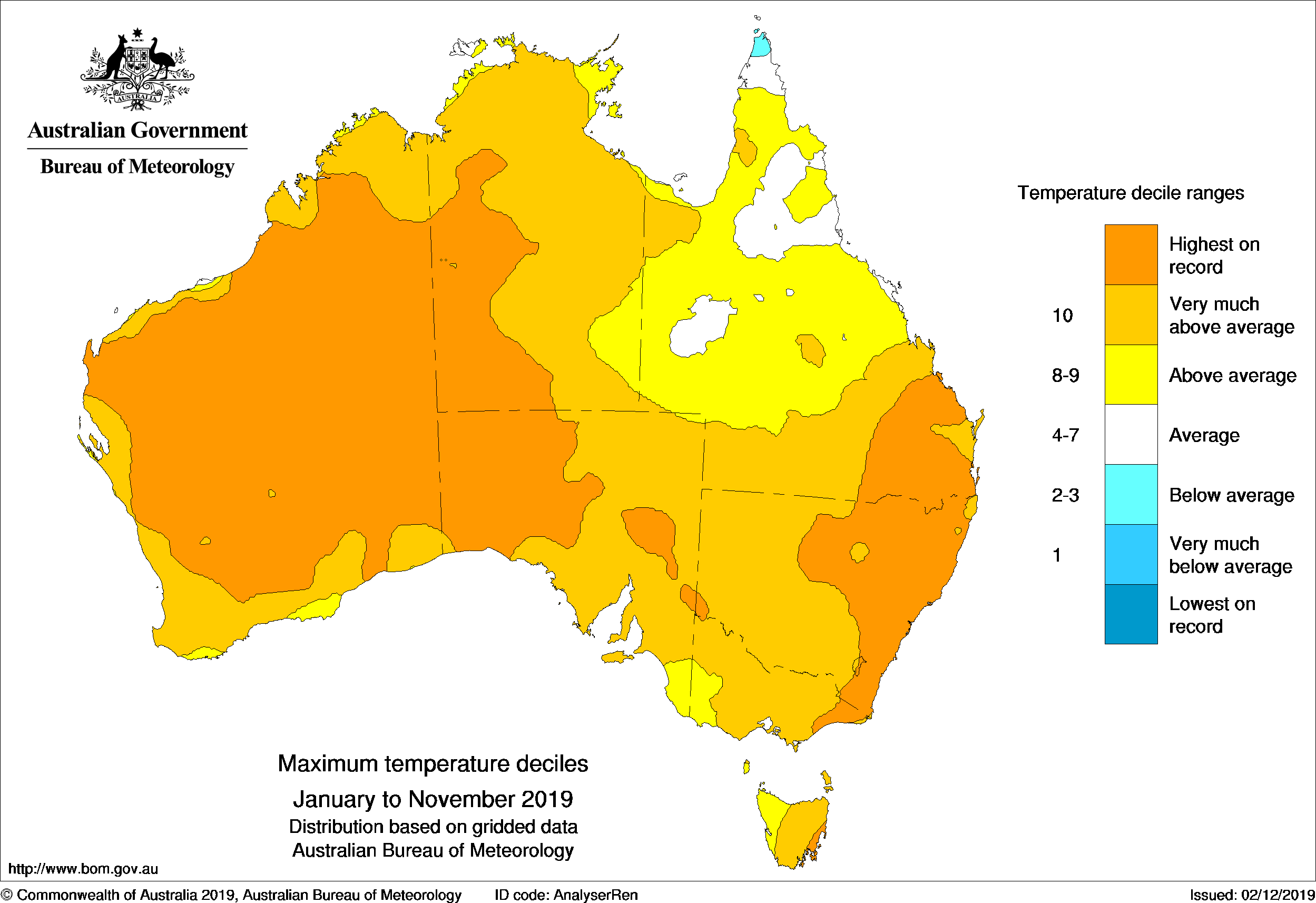 Figure shows significantly large portions of Australia undergoing either 'Above average', 'Very much above average' or 'Highest on record' maximum temperature events throughout the January to November 2019 period.